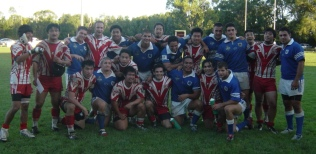 Japans national rugby league team (Feb. 2008)